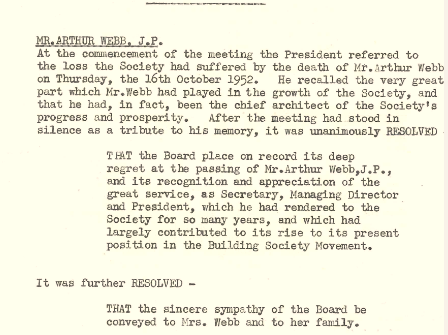 A scanned image of an extract of the Board Minutes Book for October 1952 with the original being held in the historical archives of the Nationwide Building Society.